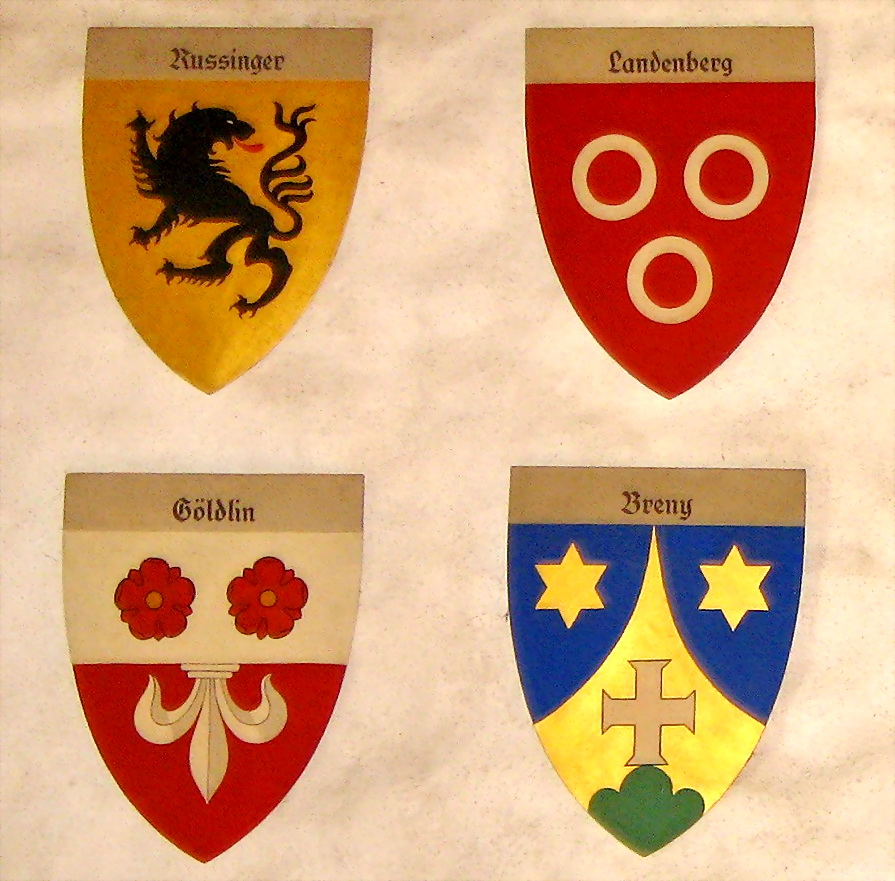 Rapperswil (SG) : Stadtmuseum Rapperswil, known as Breny-Haus or Breny-Turm. Coats of arms of the noble families Russinger, Landenberg, Göldlin and Breny.